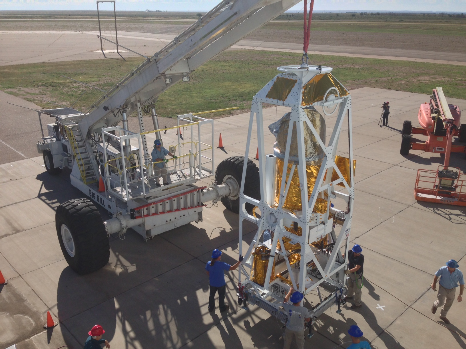 The Balloon Rapid Response for ISON (BRRISON) payload is rolled out of its processing bay this morning at Ft. Sumner, N.M., for electronics and communications testing prior to its expected pre-dawn flight on September 29. During it Sunday flight, BRRISON will observe the comet as it heads towards the sun for its passage of the fiery giant in late November.